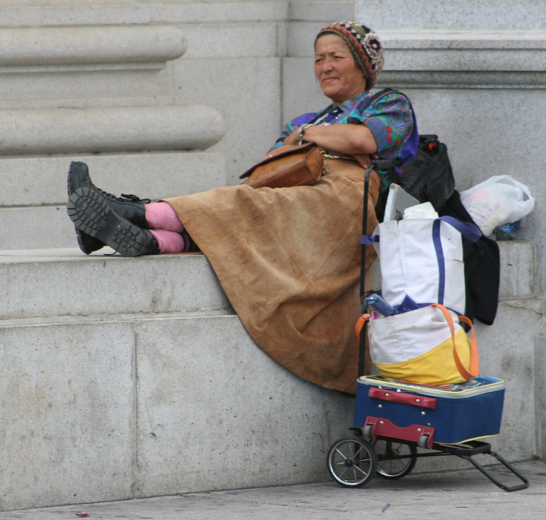 A homeless woman sitting at a monument in Washington, D.C.